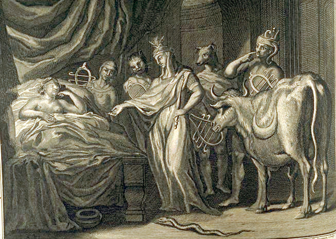 Isis' cortege appears to Telethusa. Engraving by Bernard Picart et al. for Ovid's Metamorphoses Book IX, 669-701. First published in Amsterdam, R. & J. Wetsein & G. Smith, 1732.